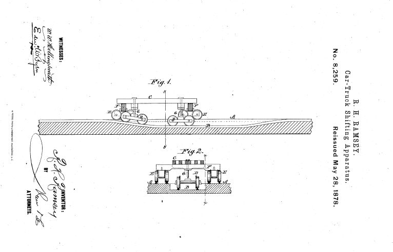 US Patent Office Image Patent Number RE8,259